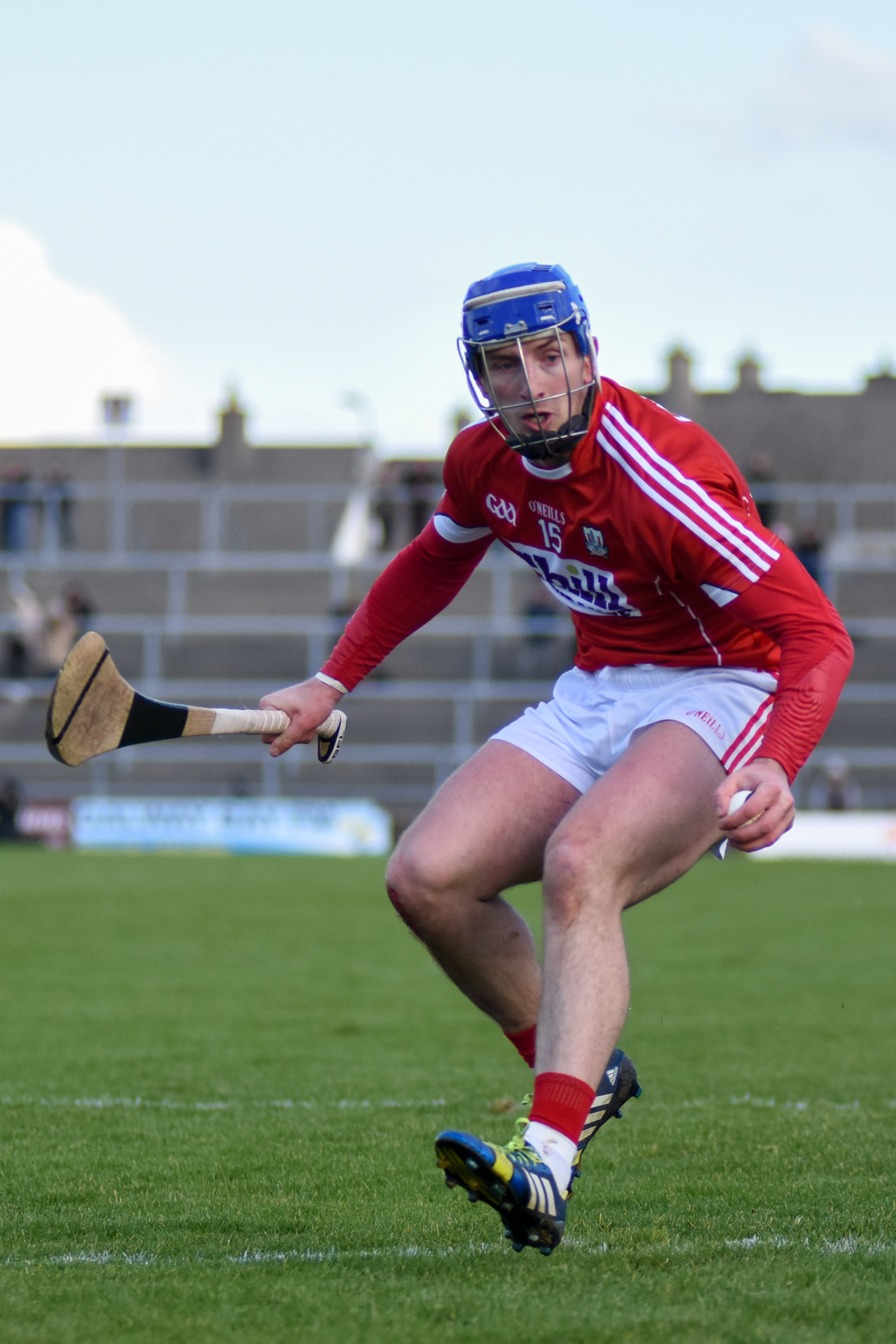 Patrick Horgan in action for Cork against Galway in the 2016 National Hurling League at Pearse Stadium